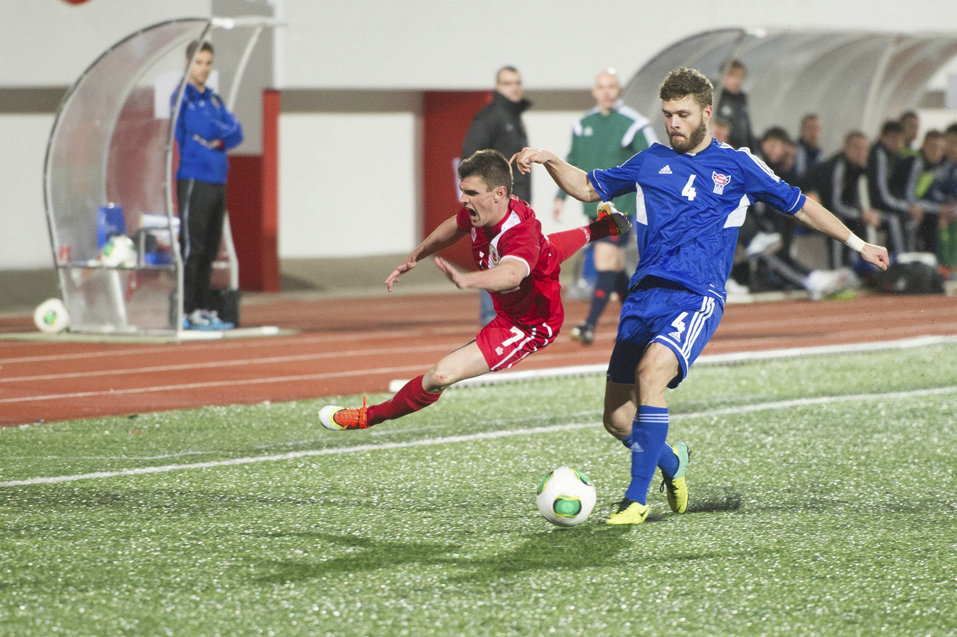 Gibraltar v. Faroe Islands friendly football match at the Victoria Stadium. Jeremy Lopez in red.